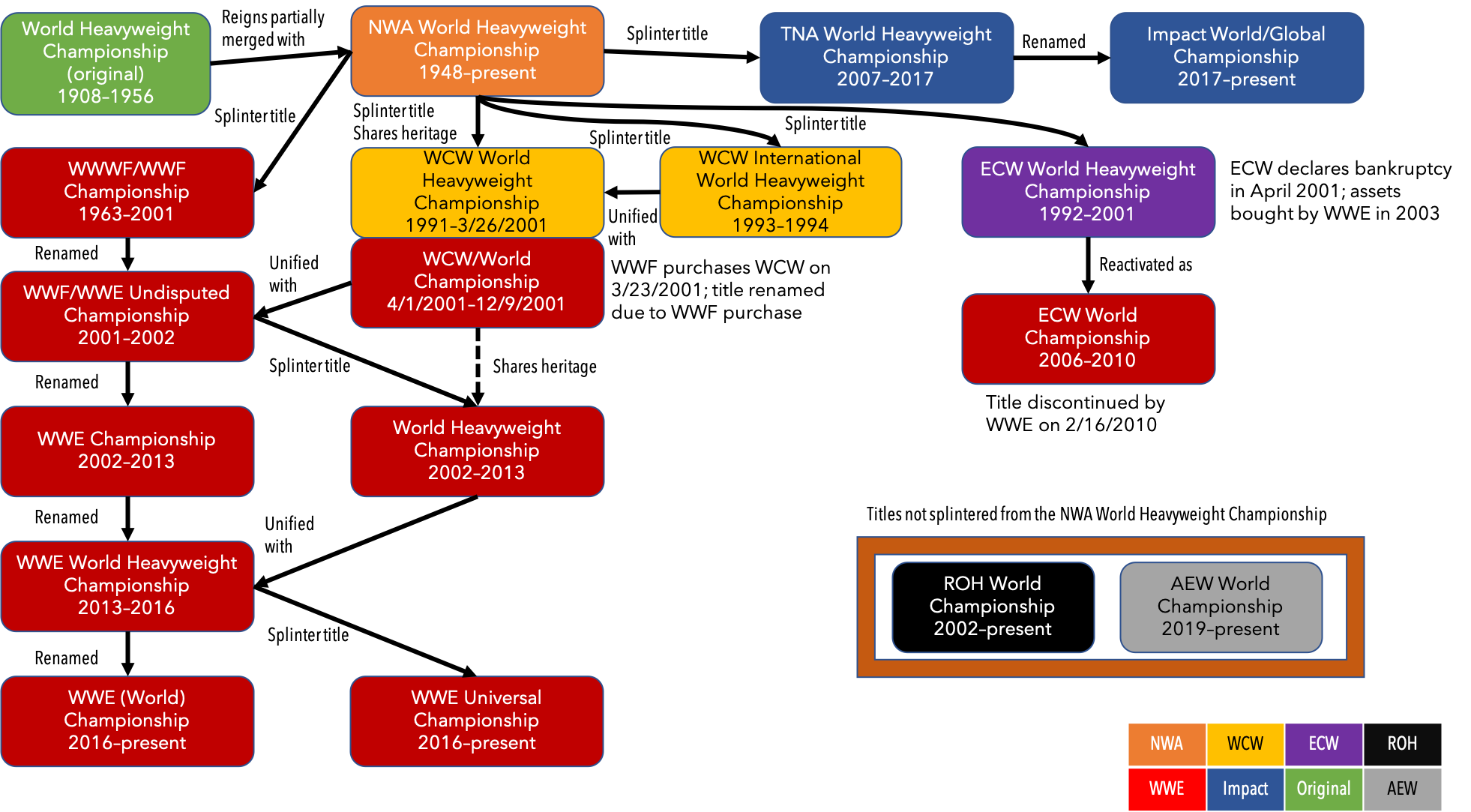 History of world heavyweight championships in National Wrestling Alliance, World Championship Wrestling, WWE, TNA/Impact Wrestling, Ring of Honor, and All Elite Wrestling.